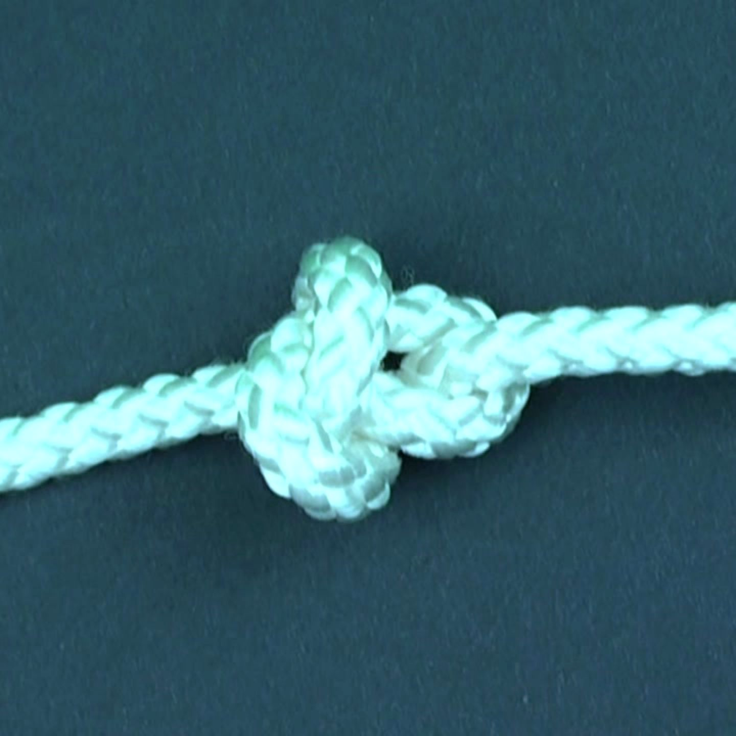 one of many knots